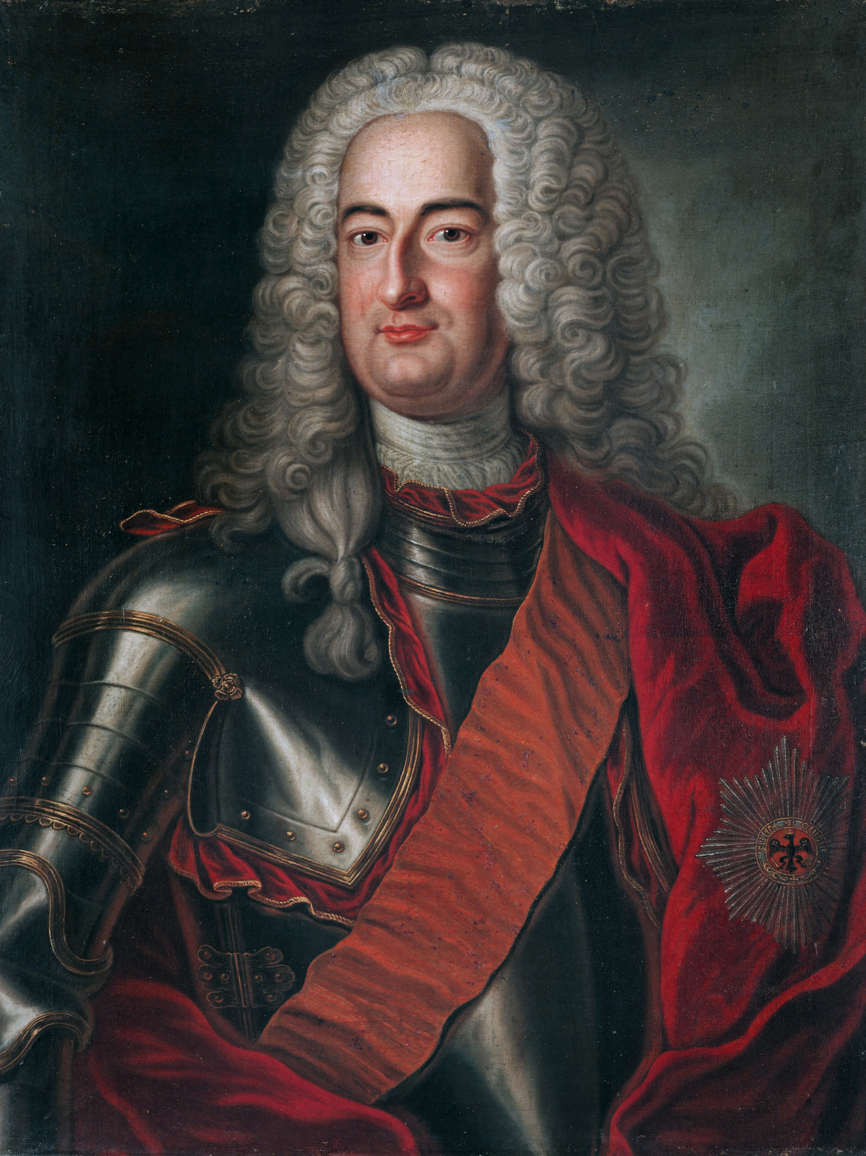 Albert Wolfgang von Lippe Schaumburg Buckeburg (1699-1748) oil on canvas 85 x 66 cm 1725 - 1749